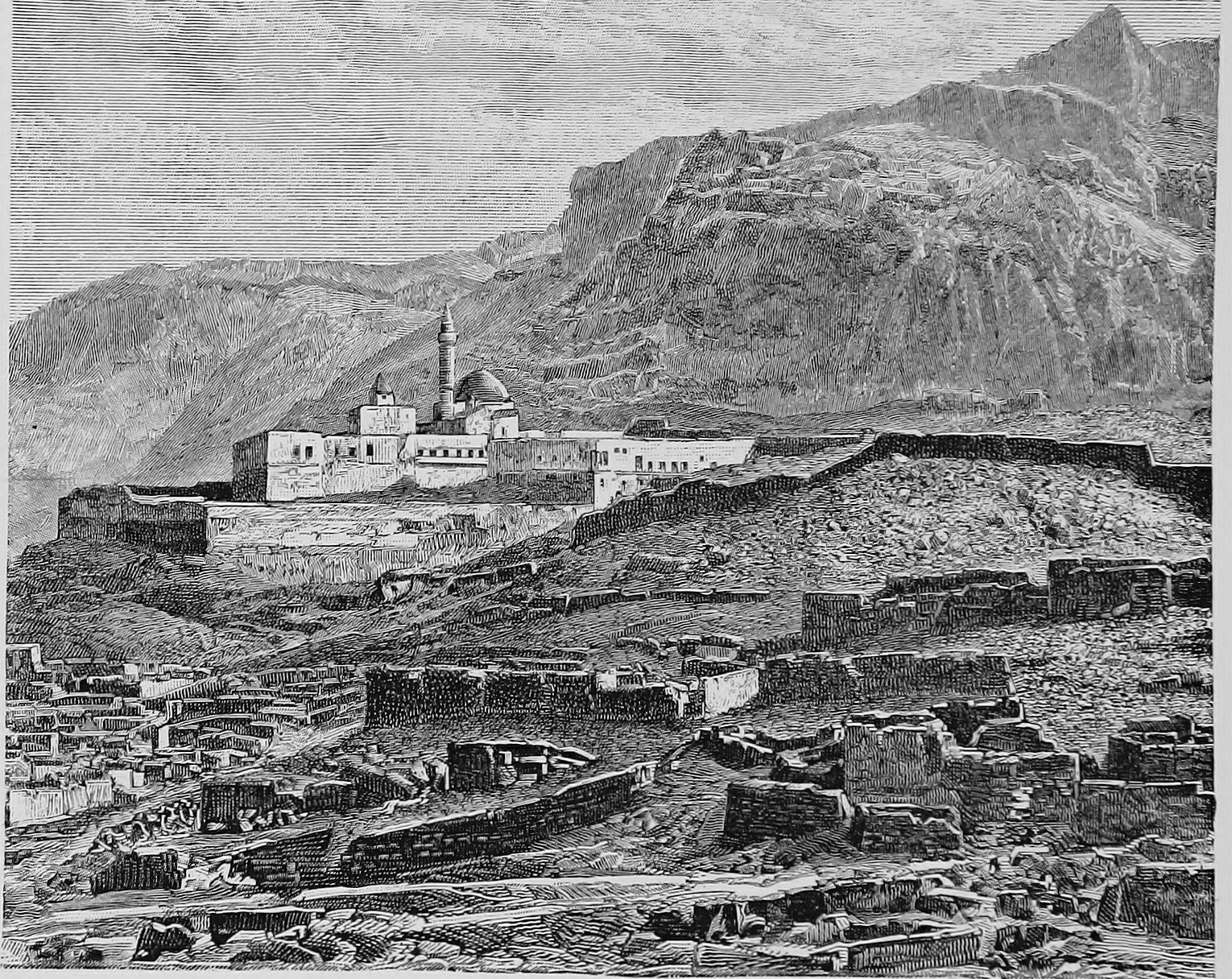 Doğubeyazıt Mosque and ruined quarter Identifier: cu31924095158964 Title: The universal geography : the earth and its inhabitants Year: 1876 (1870s) Authors: Reclus, Elisée, 1830-1905 Ravenstein, Ernest George, 1834-1913 Keane, A. H. (Augustus Henry), 1833-1912 Subjects: Geography Publisher: London : J.S. Virtue & Co., Ltd.